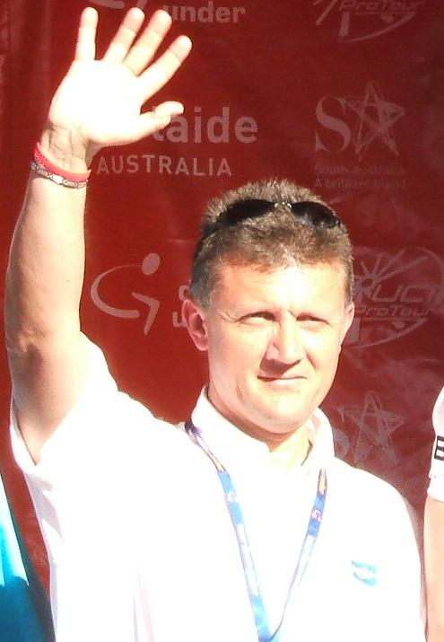 Named cyclist at the en:2009 Tour Down Under team presentation